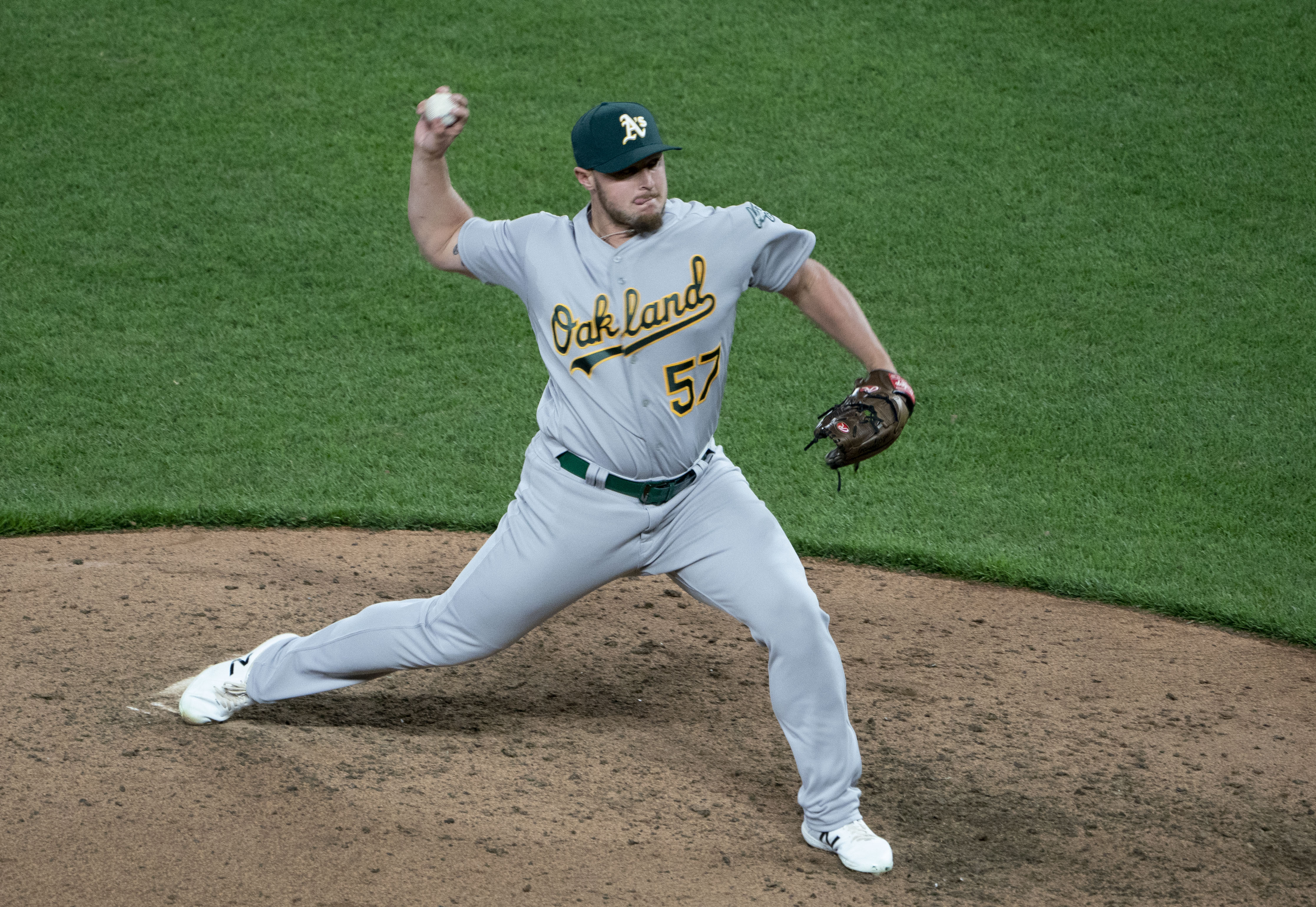 Athletics at Orioles 4/10/19